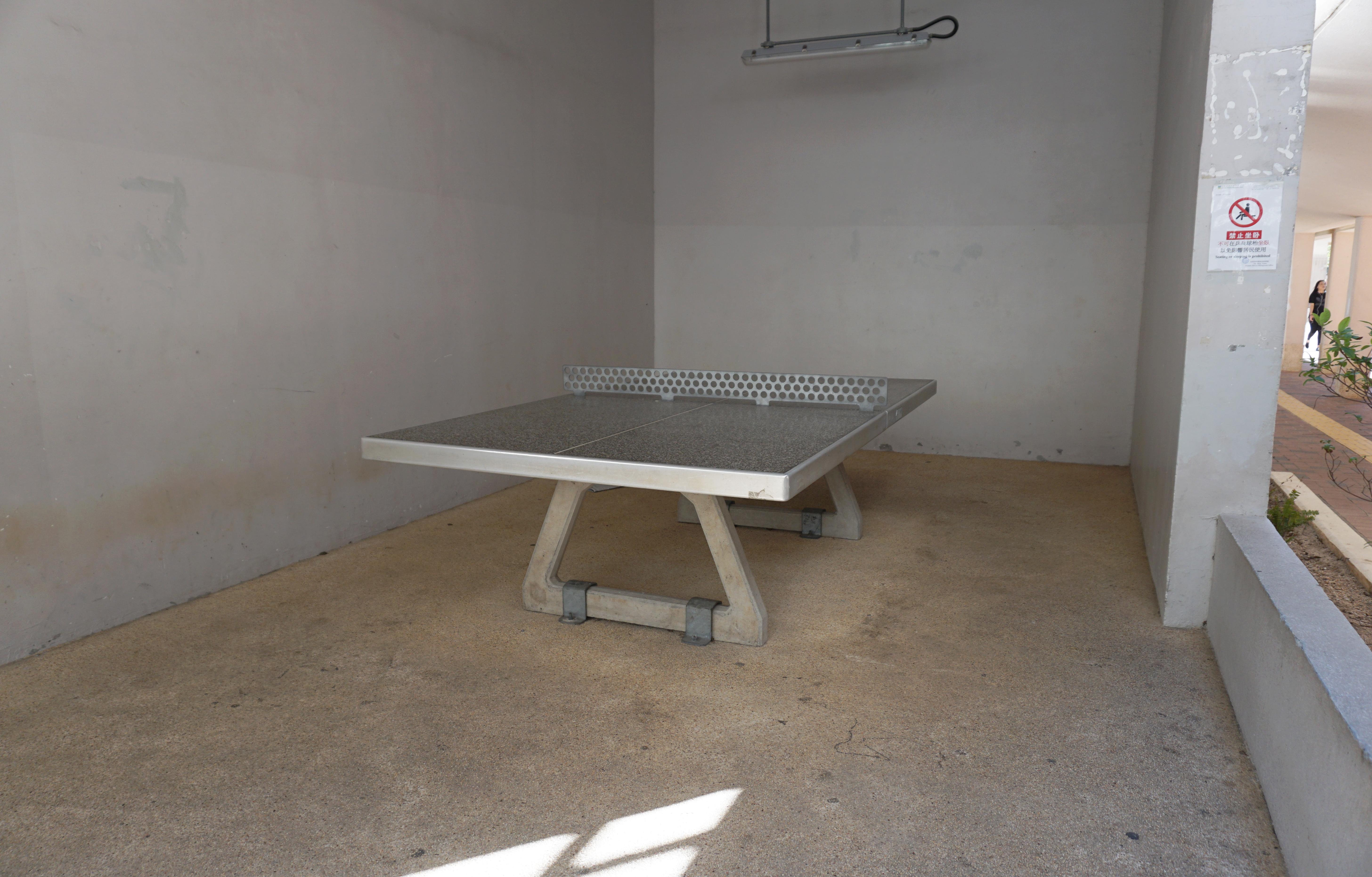 Yee Ming Estate in Tseung Kwan O, Hong Kong.